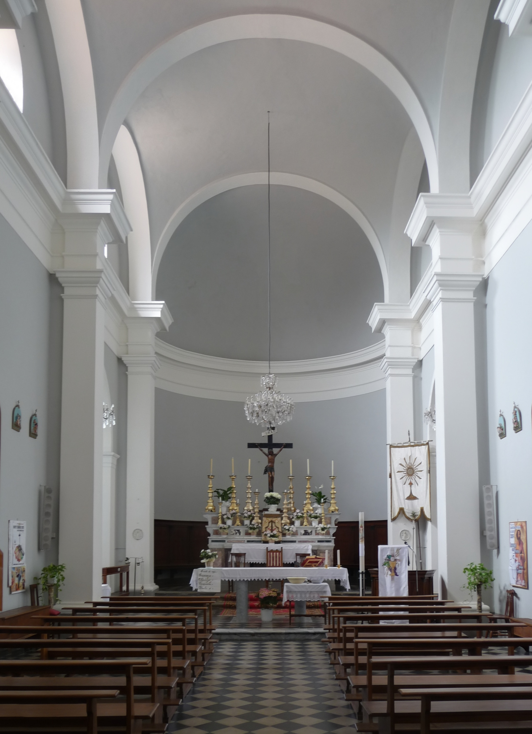 Chiesa di San Bartolomeo, Pastina, Santa Luce, Province Pisa, Tuscany, Italy